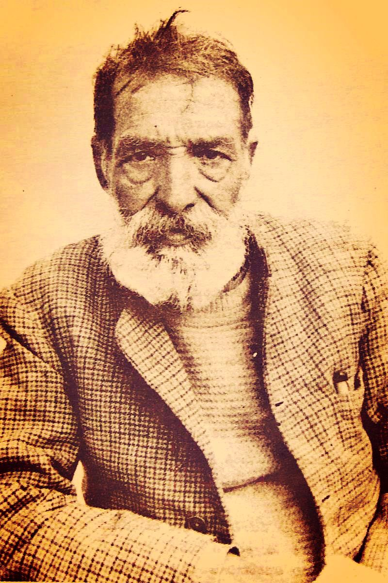 Faqir Chand